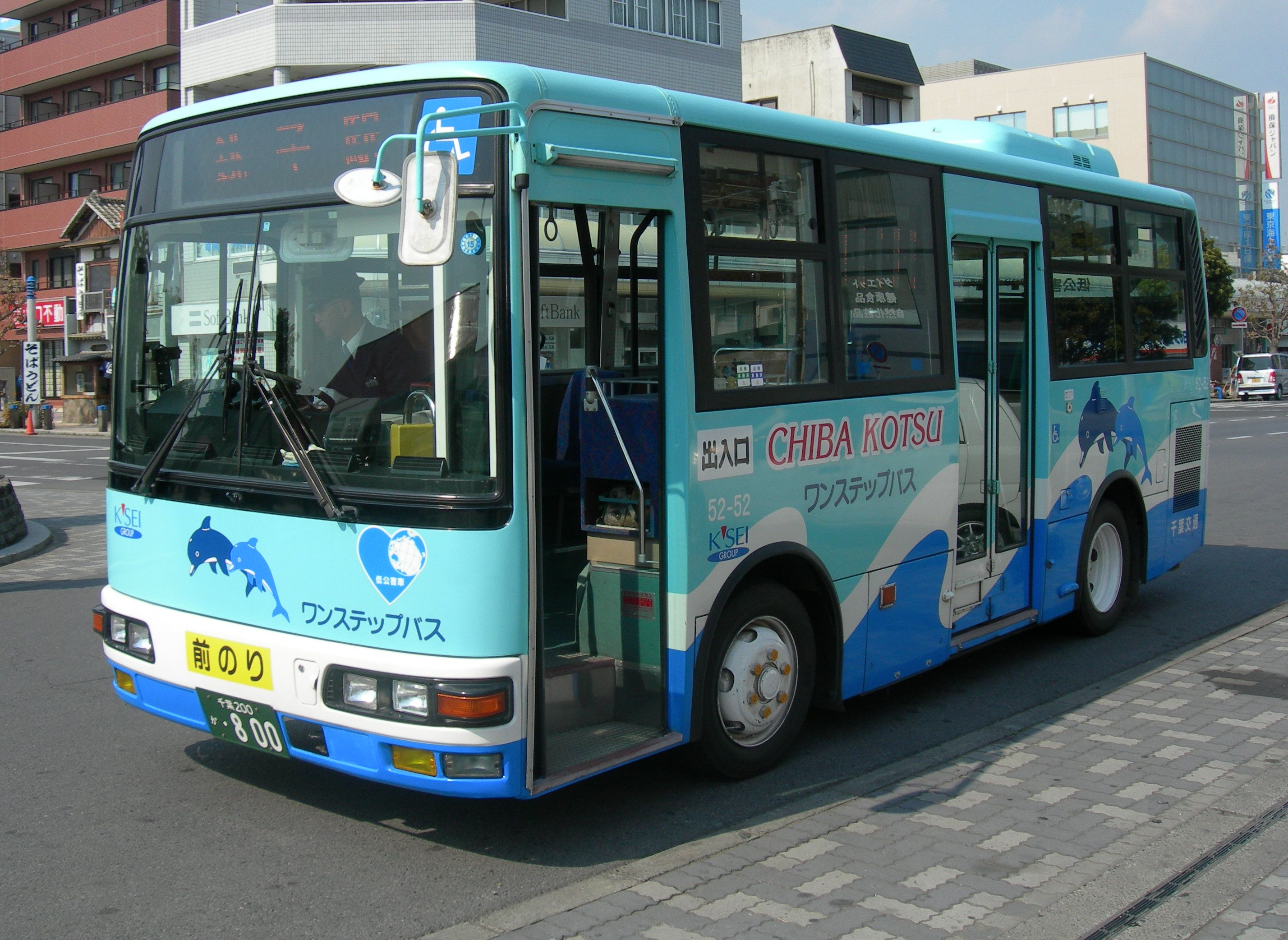 Choshi Station